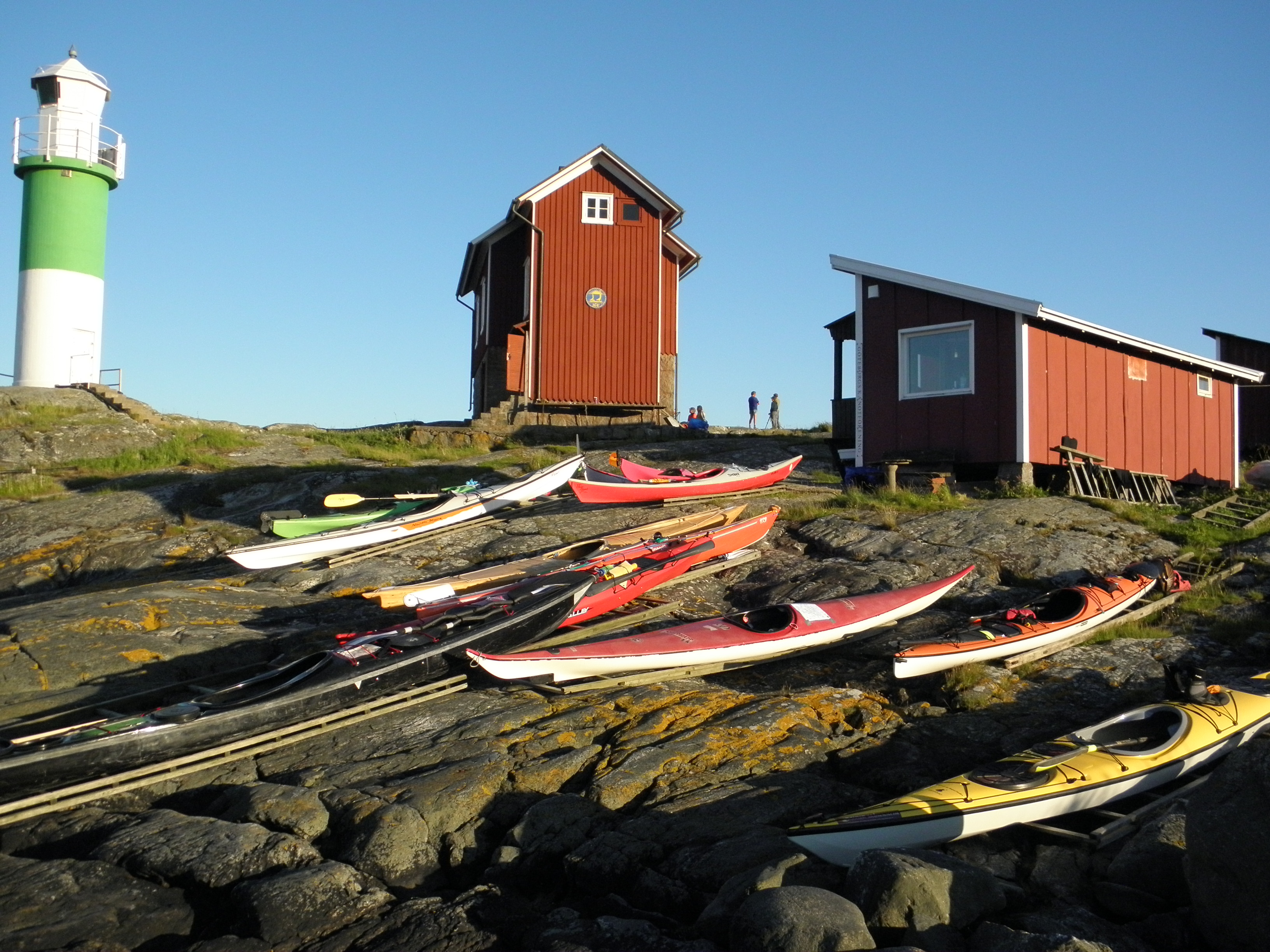 Canoe meeting on Valö